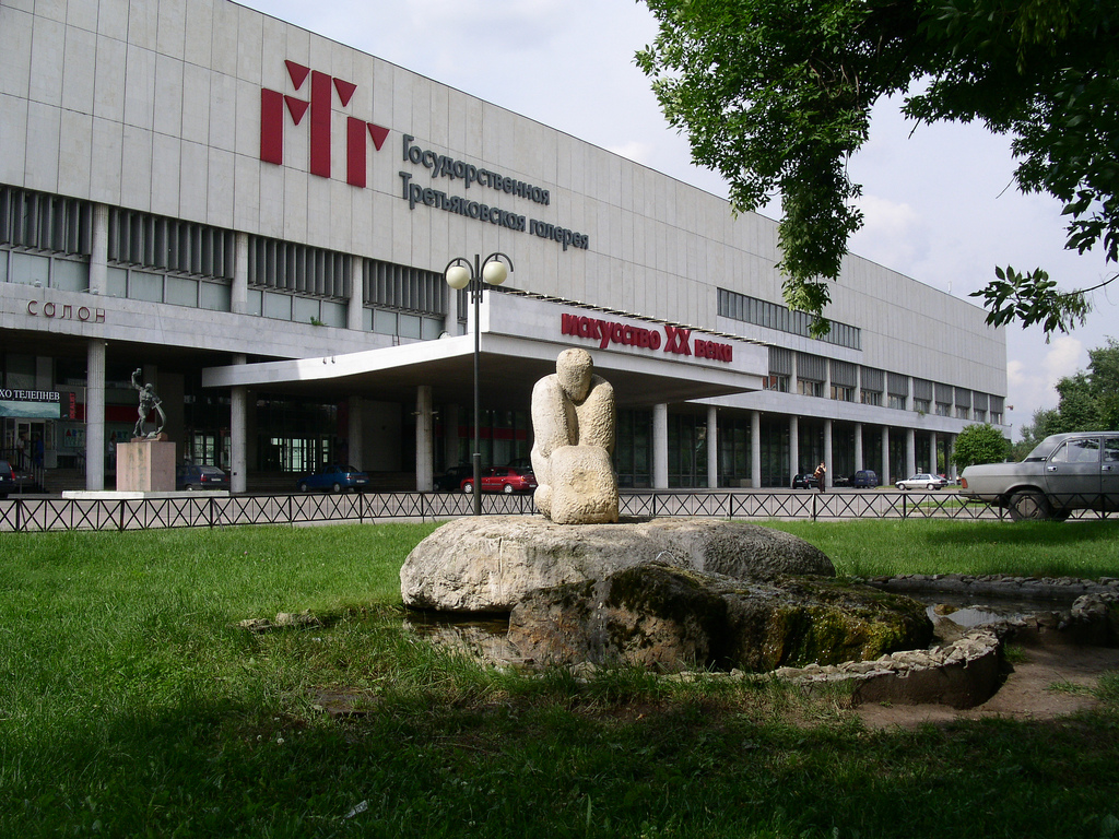 State Tretyakov Gallery XX century open air exhibition